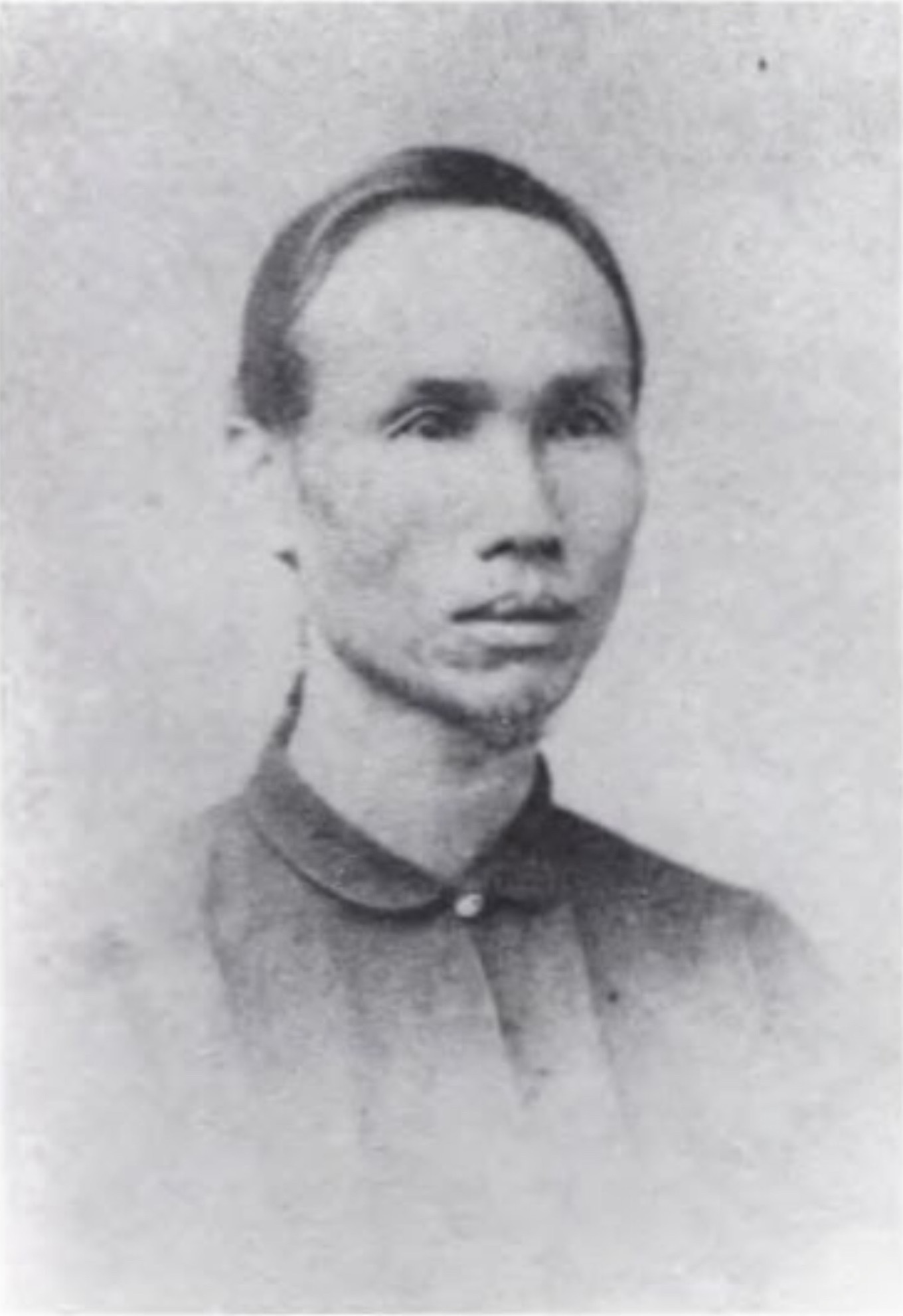 A young Chun Afong.